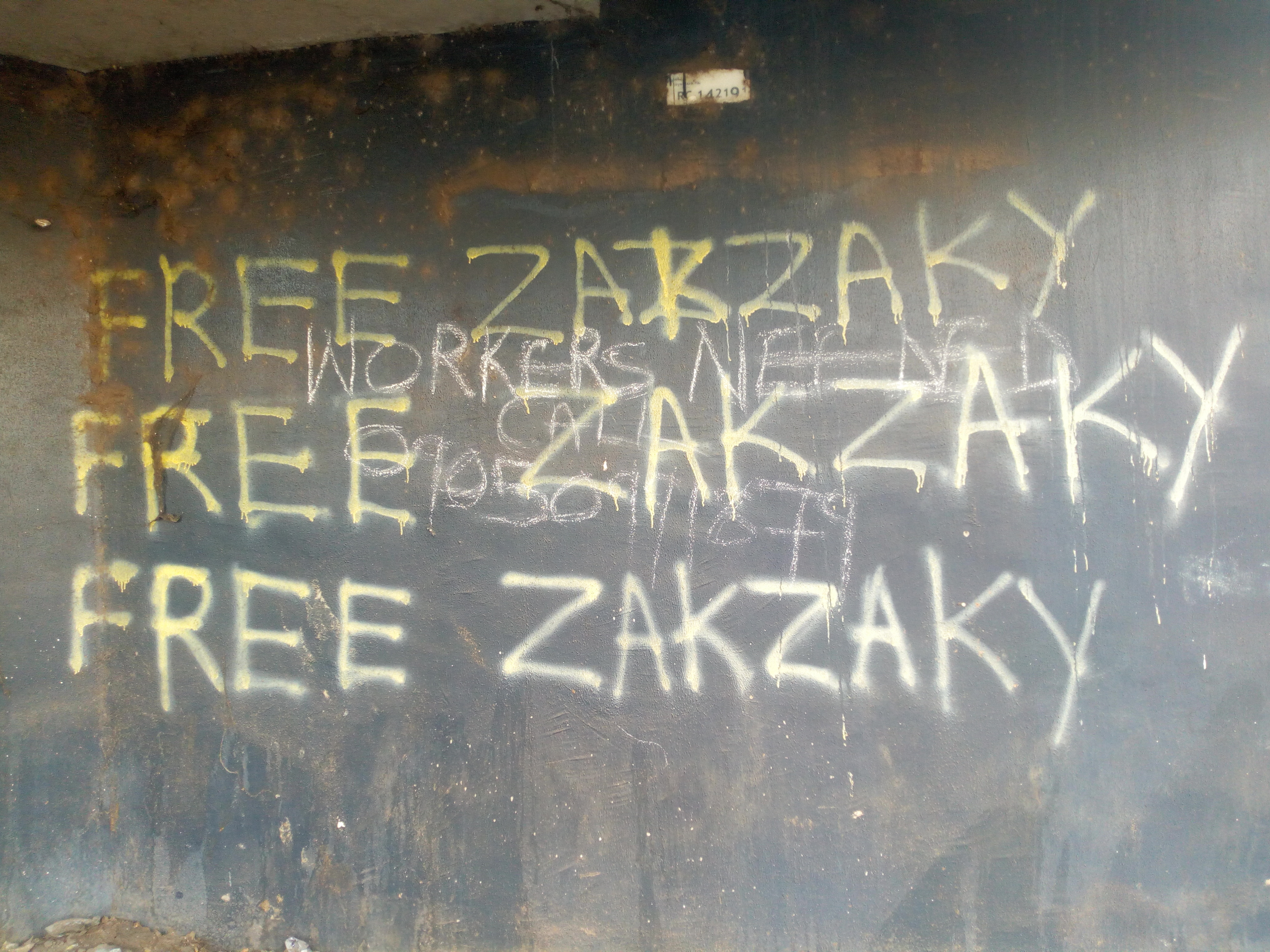 The paint